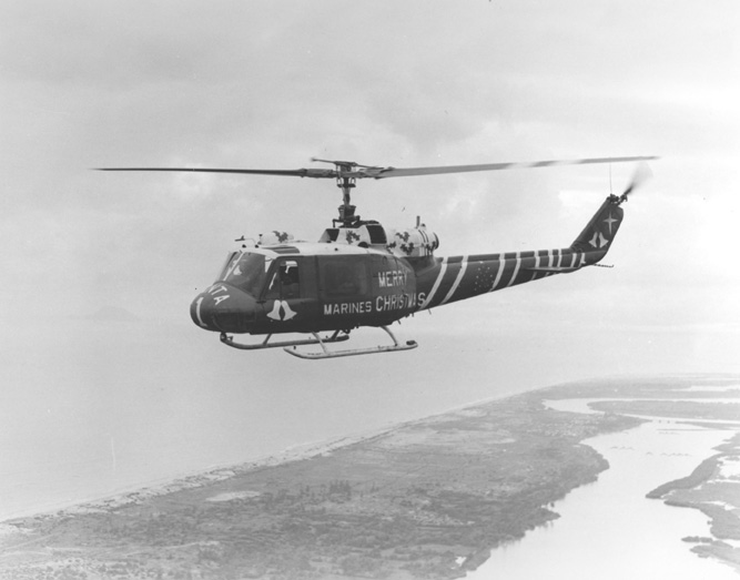 A U.S. Marine Corps Bell UH-1E helicopter from Marine light helicopter squadron HML-167 Warriors with a special Christmas paint in flight over Marble Mountain in Vietnam on Christmas Day, 1970.